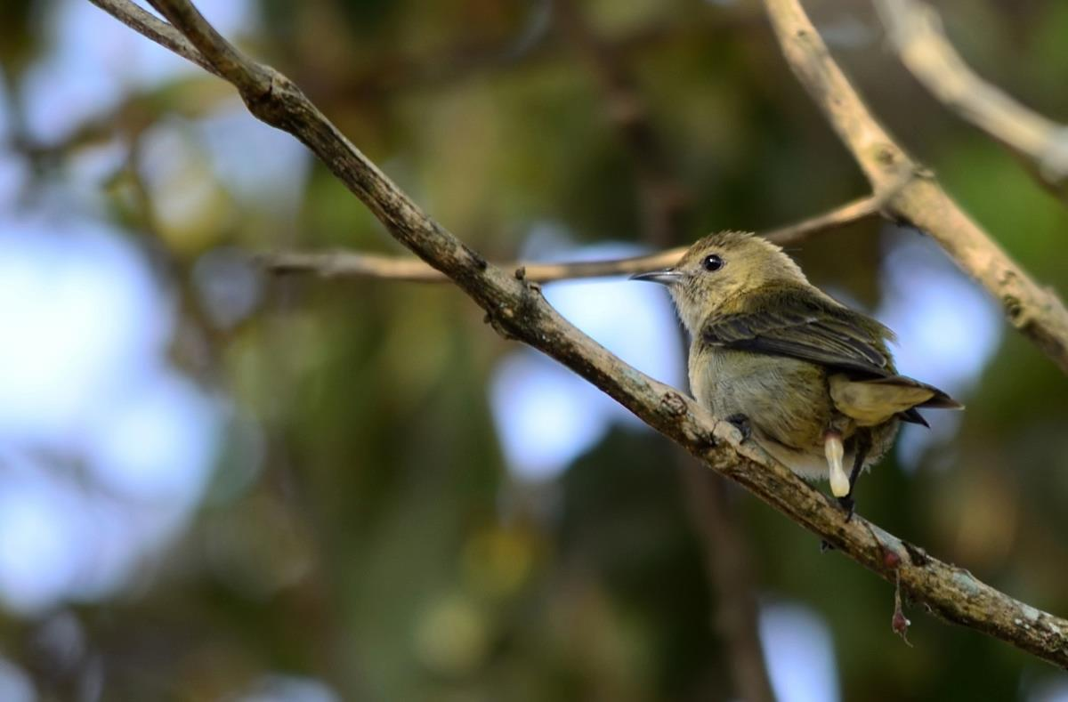 Plain Flowerpecker at Manas national park, Assam, India